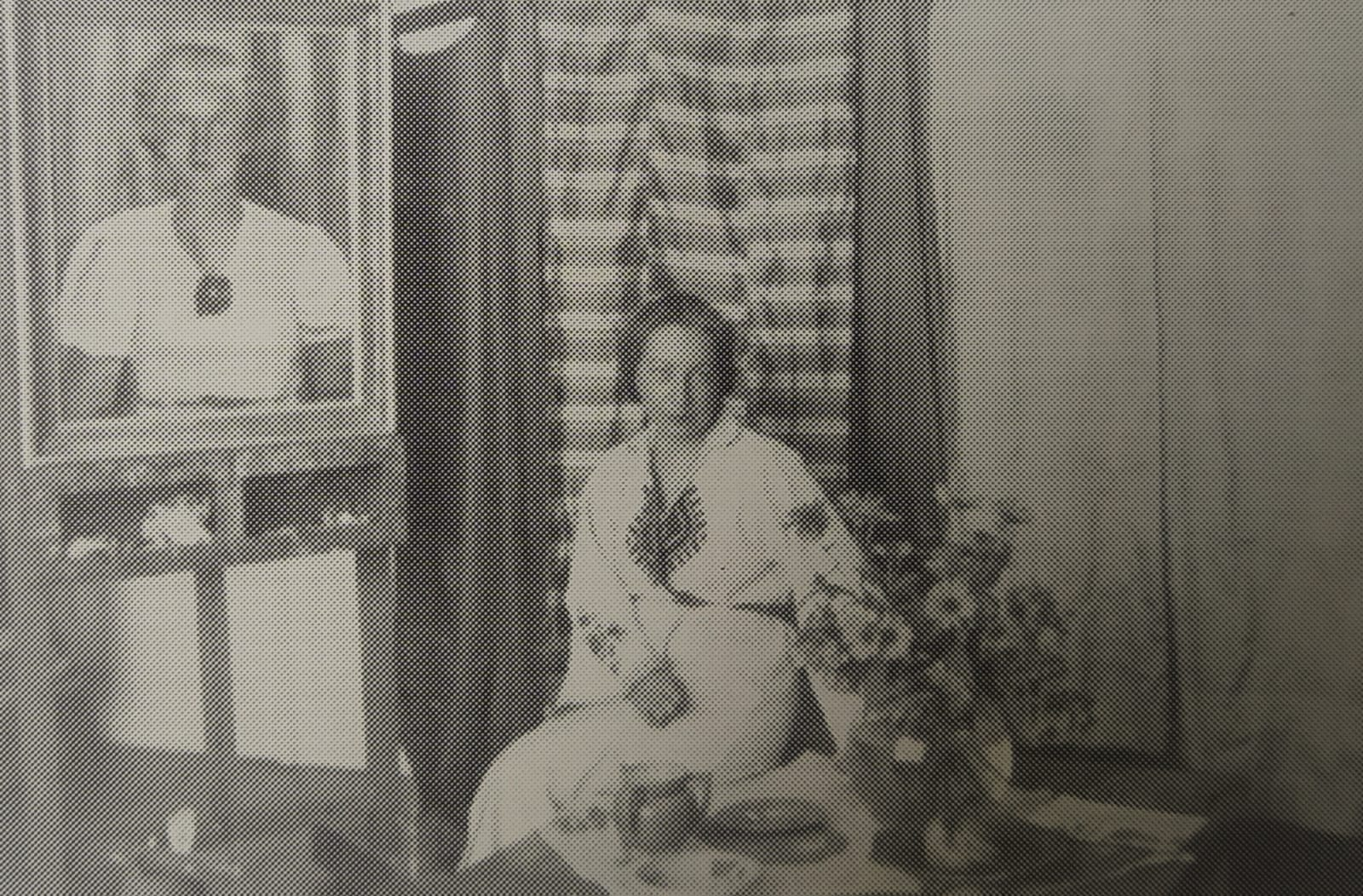 Milica Bešević, Serbian painter, in her studio. Српски (ћирилица): Милица Бешевић, српска академска сликарка, у свом атељеу у Призренској улици.